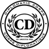 small diplomatic corps image scanned from a diplomatic communiqué which arrived at the embassy where I work. I tried to clean it up best I could as it was only small..